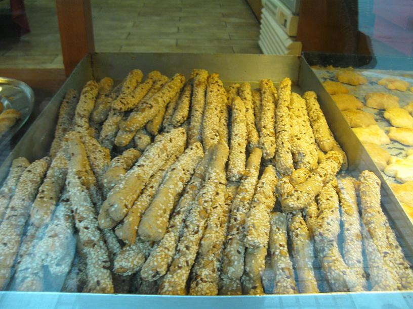 Greek crostini with sesame.